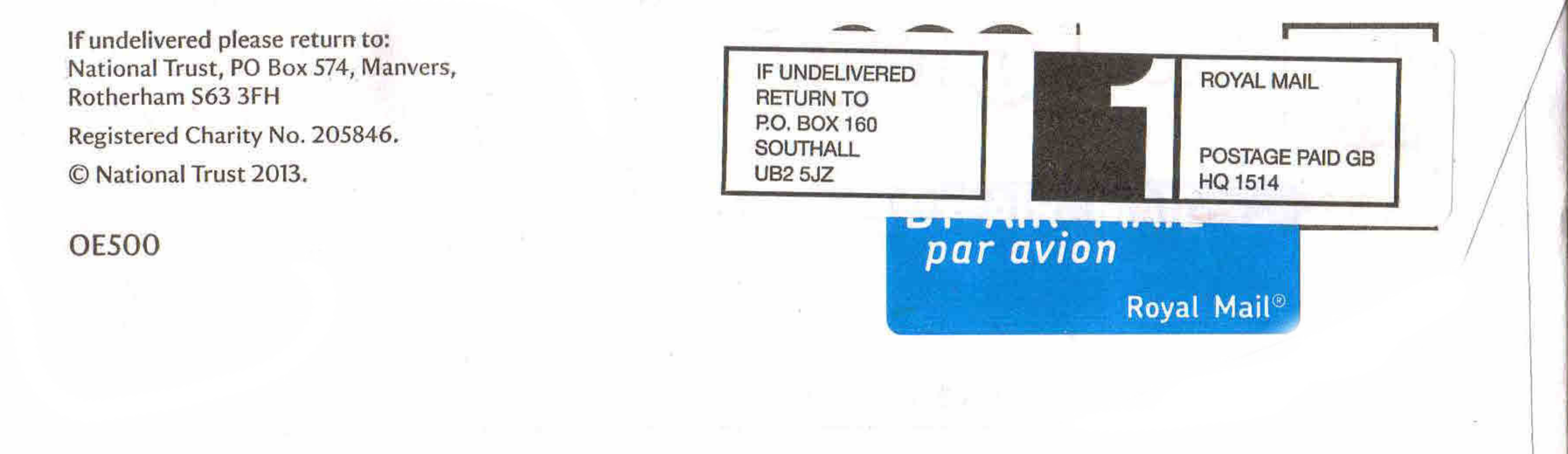 Royal Mail, Postage Paid GB: If undelivered please return to …